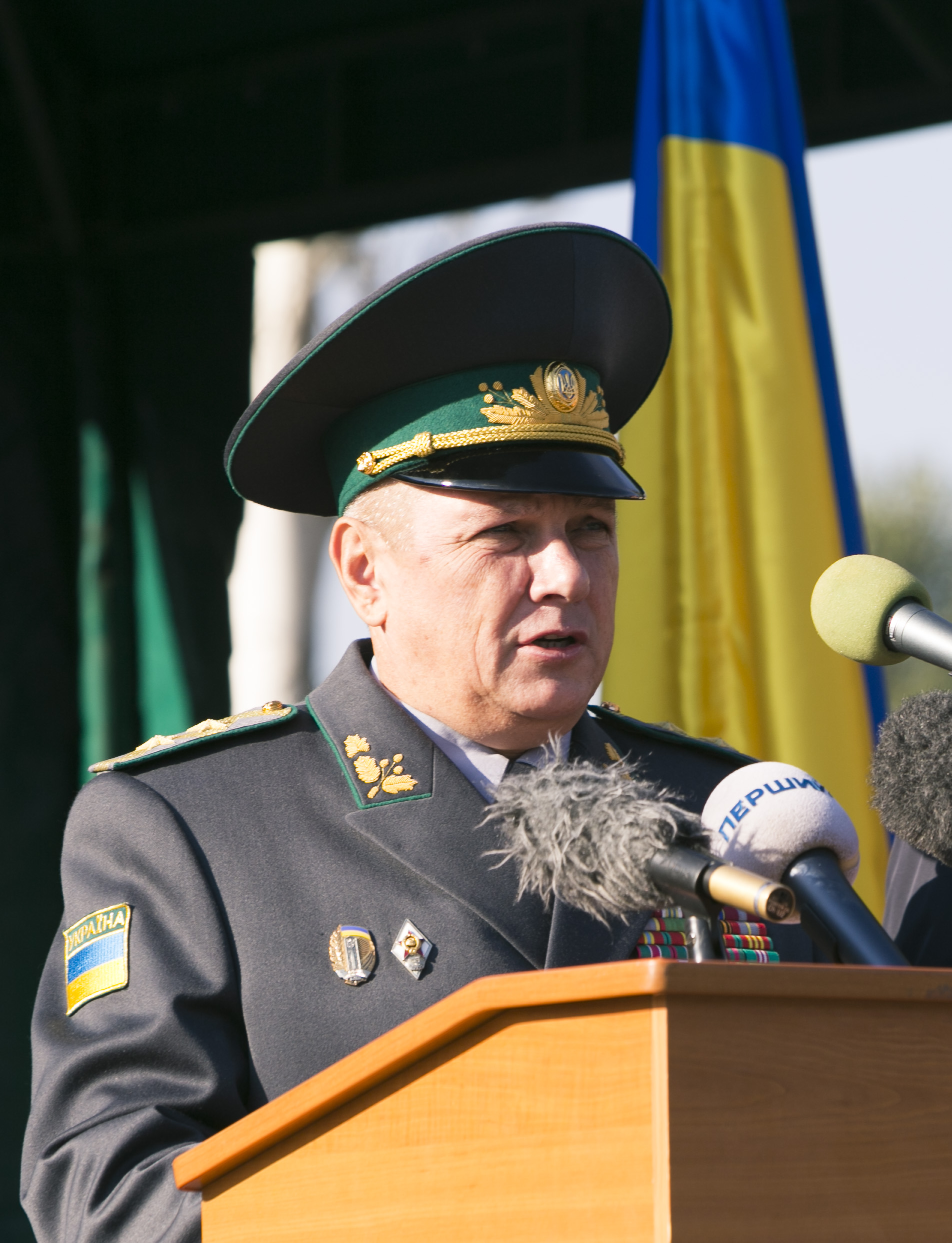 Assistant Secretary of State Victoria Nuland at a Ukrainian State Border Guard Service (SBGS) Base in Kyiv, Oct. 8, 2014.